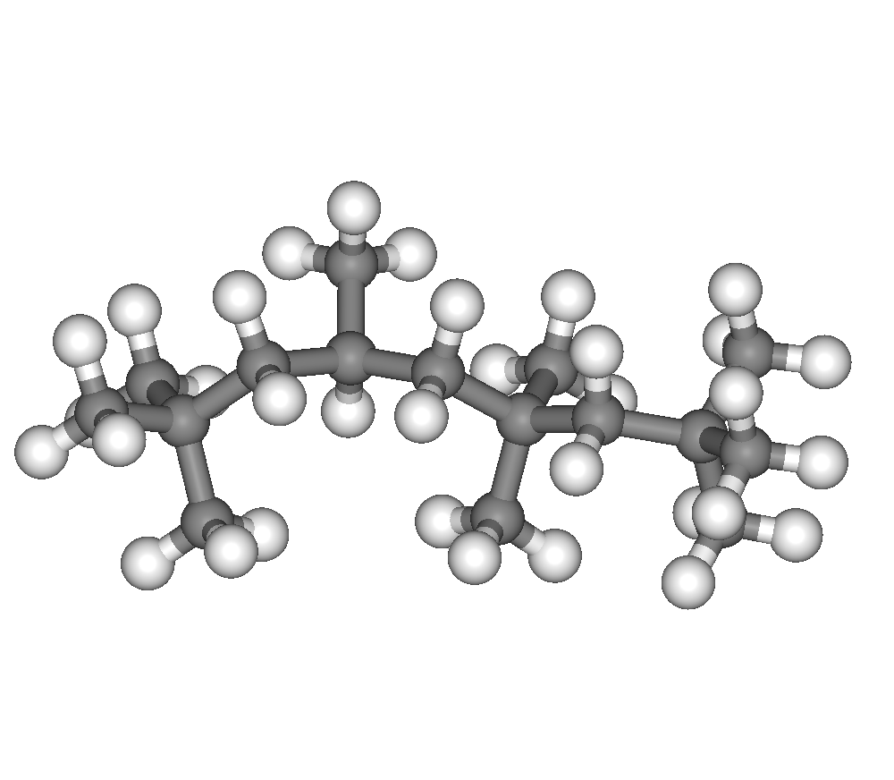 chemical structure of isocetane (2,2,4,4,6,8,8-heptamethylnonane)